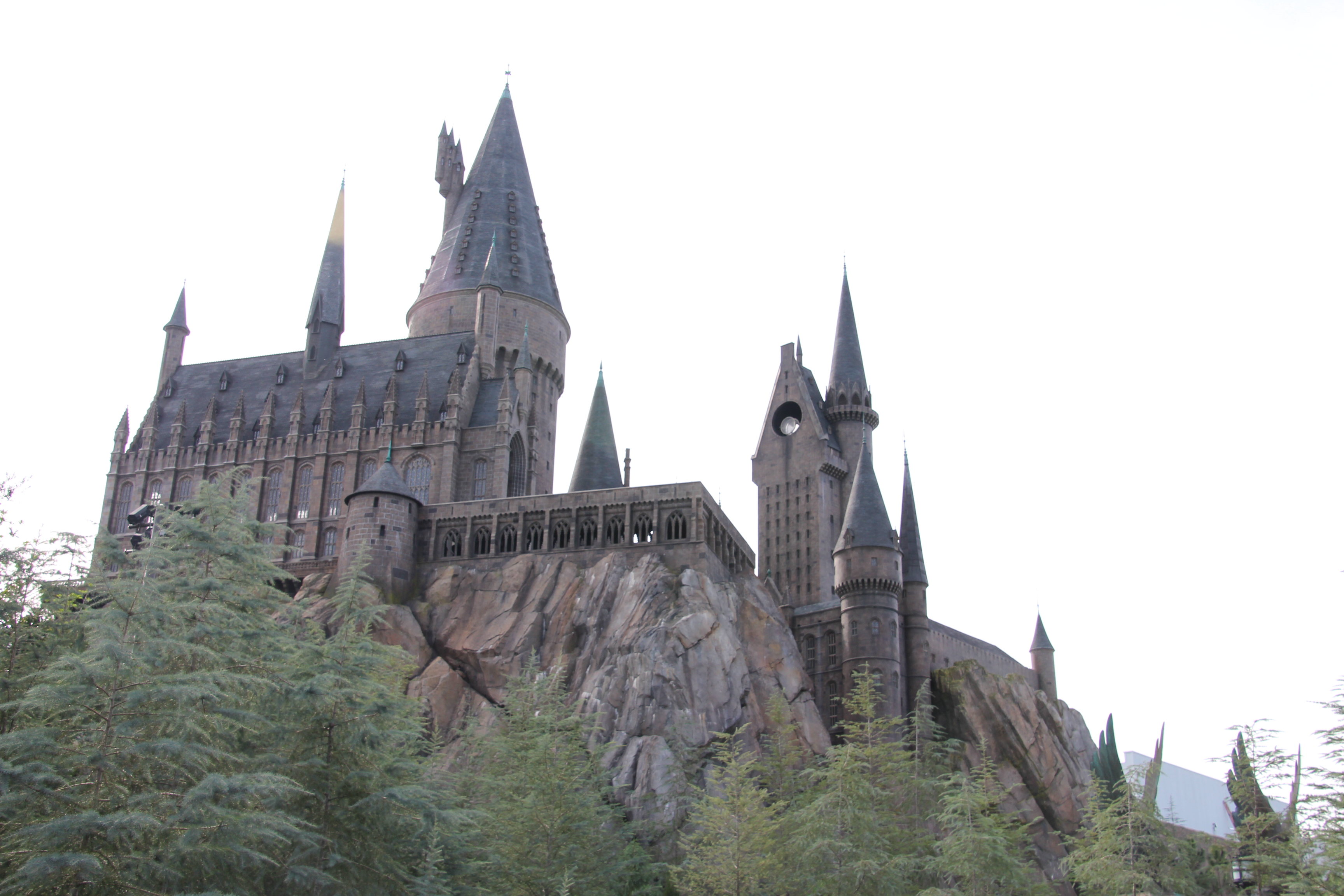 Hogwarts Castle at the Harry Potter and the Forbidden Journey amusement ride in the Wizarding World of Harry Potter at the Islands of Adventure amusement theme park at Universal Orlando in Orlando, Florida.